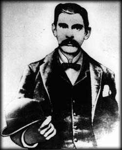 This is a historical image from They don't say where they got it. Their URL for it is This image of "doc" with the bowler hat actually is a print that hangs in the Tombstone Cochise county courthouse museum. That's the only known print. The Denver public library western collection (which was the source of the print according to the Tombstone Museum) does NOT have it-- the curator of the Cochise county courthouse museum and I have asked them. There is nothing on the print itself to indicate its origin, though its location in Tombstone certainly suggests a Fly photo. This print is certainly pre-1923 and therefore in public domain.